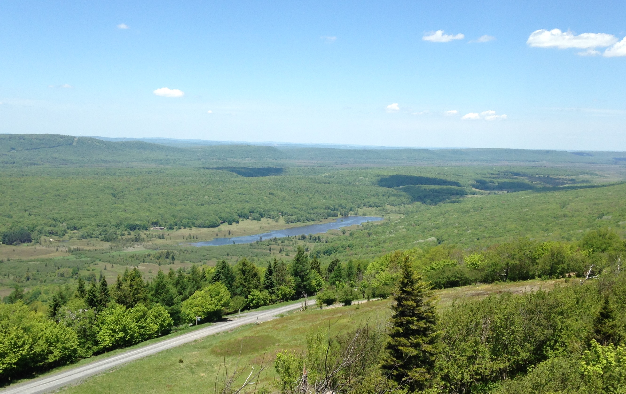 View of the northern half of Canaan Valley, Tucker County, West Virginia, USA. Photo taken from atop Harmon Knob.